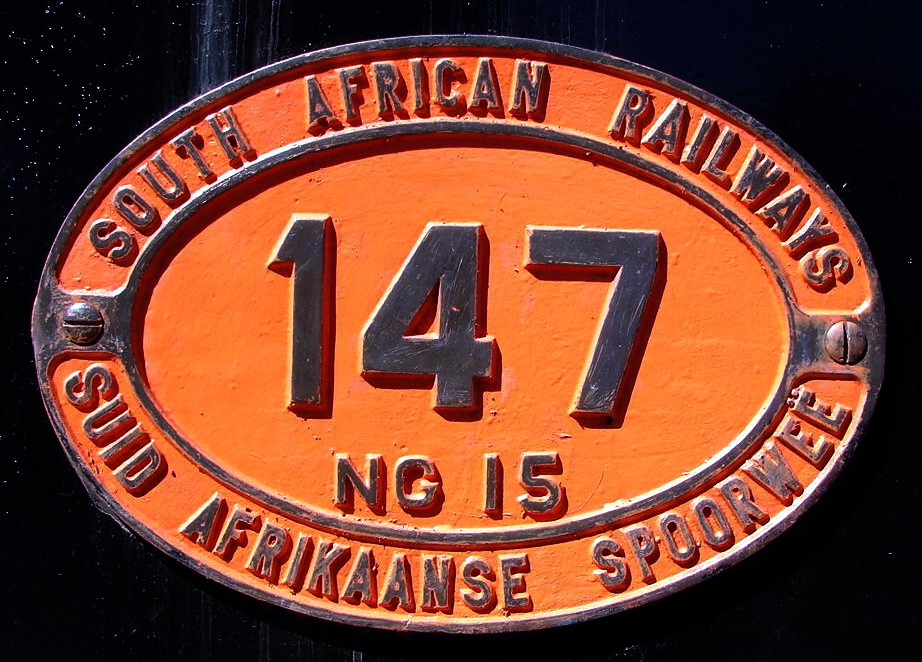 SAR Class NG15 147 (2-8-2) number plate Builder's Number: Henschel 29588 Location: Avontuur, Western Cape